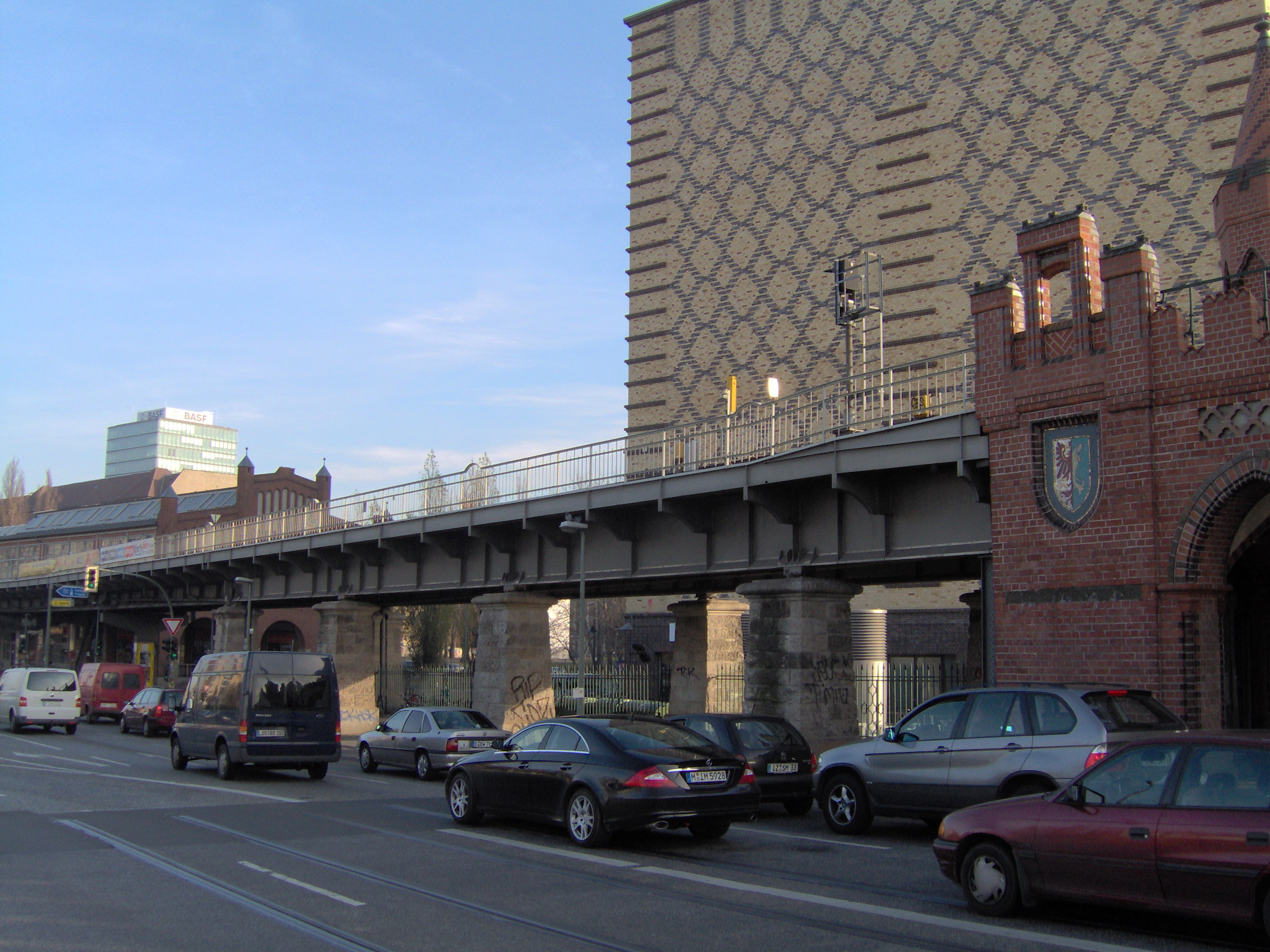 The site of former Stralauer Tor station on the Berlin U-Bahn. Taken by ProhibitOnions, 2006.